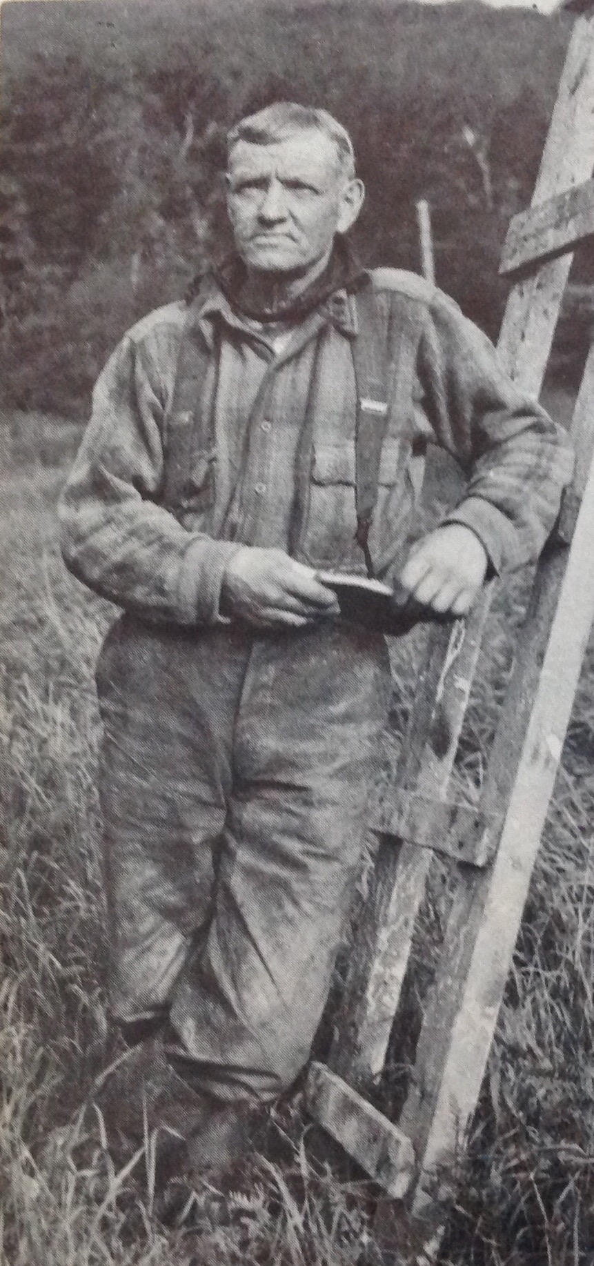 Jigger Johnson at Peabody River, Gorham, NH. (1922) (original author has released photo into public domain)